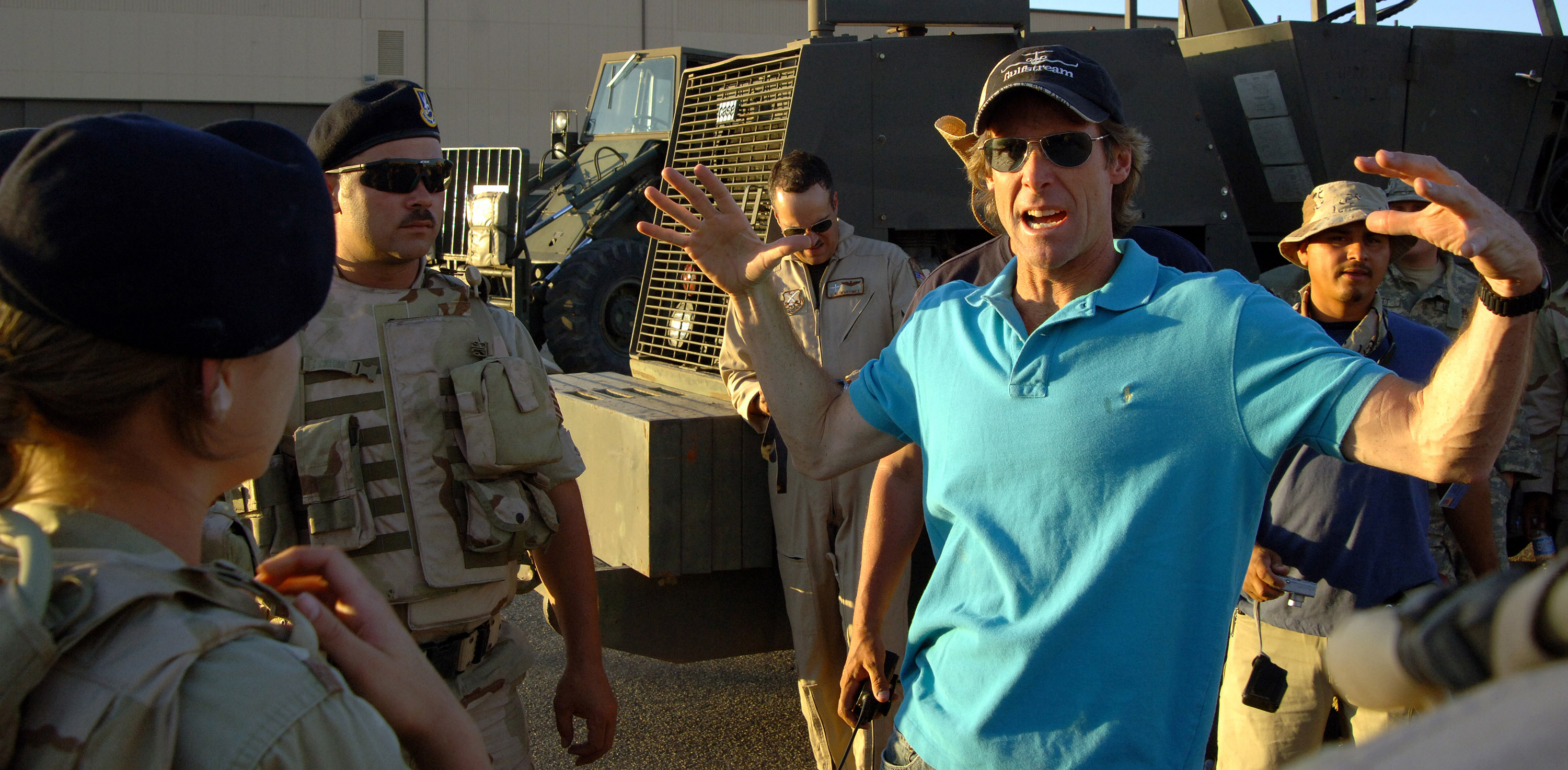 Movie director Michael Bay instructs Airmen filling the roles of extras on the set of the movie "Transformers" at Holloman Air Force Base, N.M., on Tuesday, May 30, 2006. The movie is scheduled for release in June 2007.